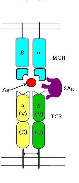 Superantigen(SAg) is associating MCH with TCR(T cell receptor).